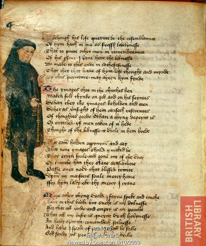 Chaucer